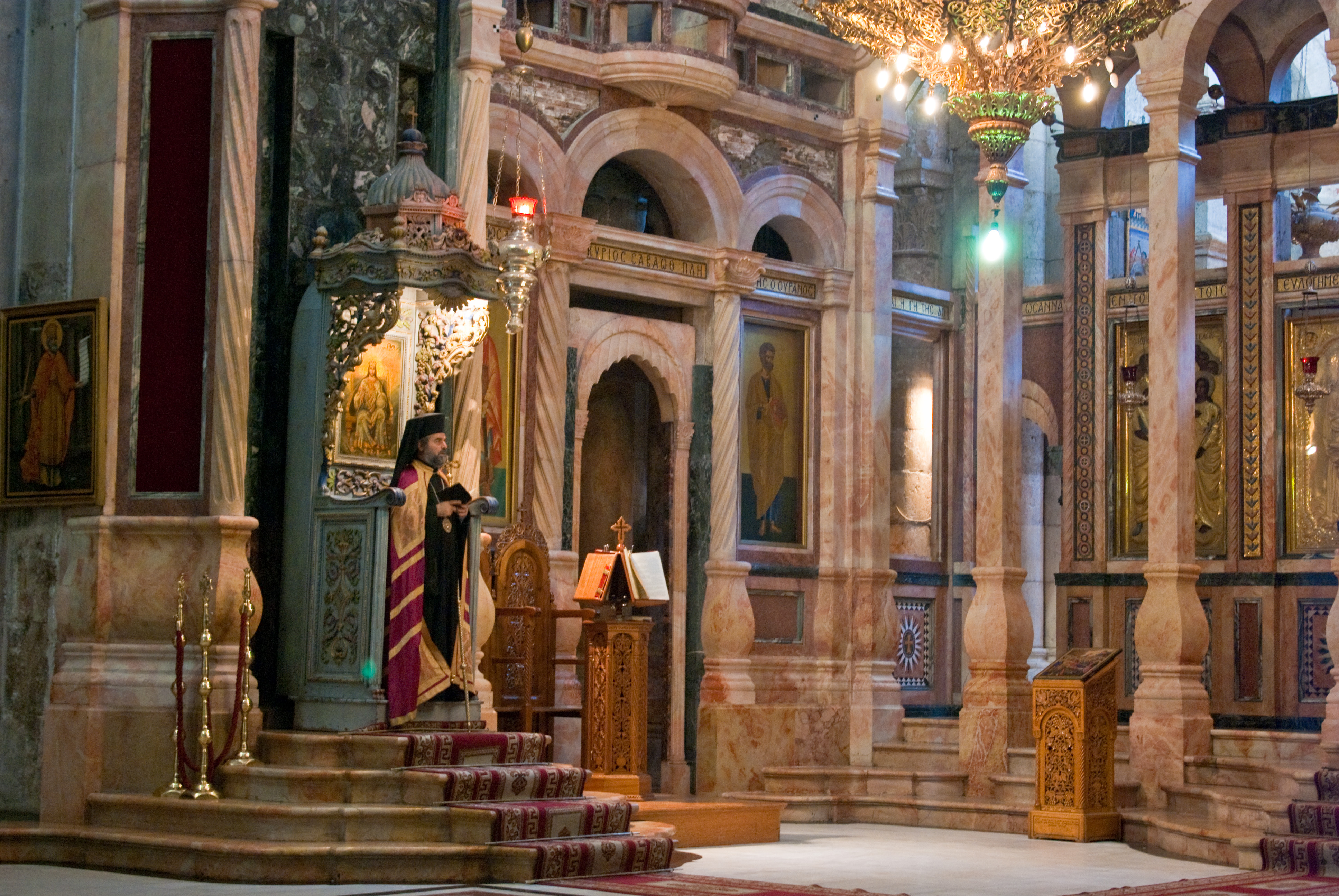 Holy Sepulchre